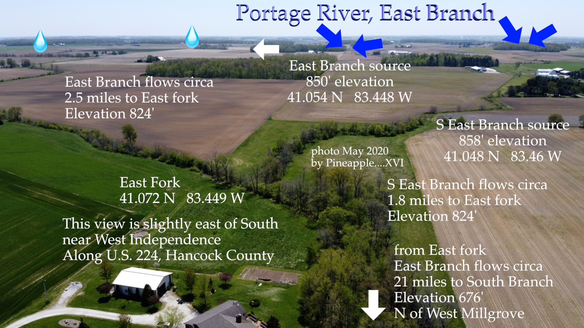 Aerial view of East branch sources forking together